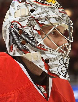 Corey Crawford, suited up for a Chicago Blackhawks game